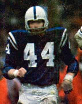 Baltimore Colts defensive back Rex Kern pictured in a defensive play during the 1971 AFC Divisional Playoffs Game.